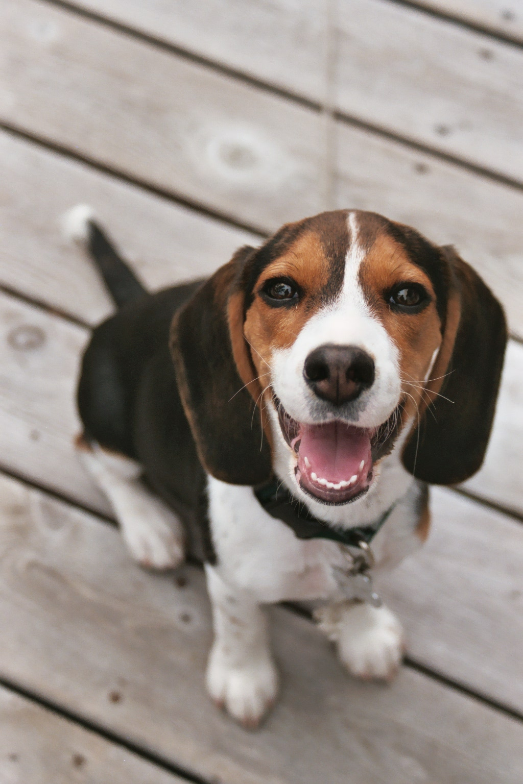 A very happy Beagle Puppy!!!